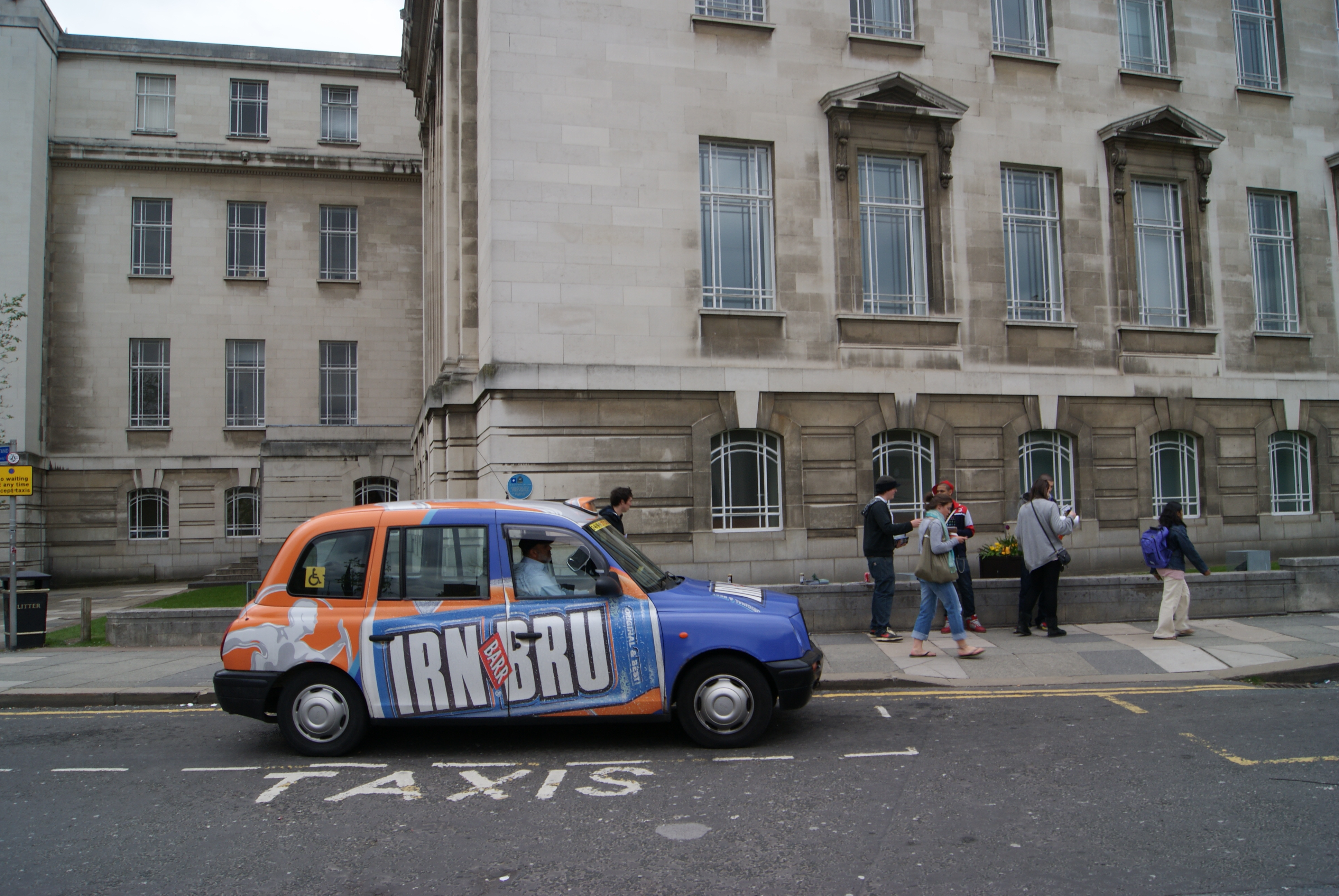 A taxi (advertising Irn-Bru) at the Taxi Rank on Cavendish Road outside the Parkinson Building at the University of Leeds. Taken on the afternoon of Tuesday the 4th of May 2010.